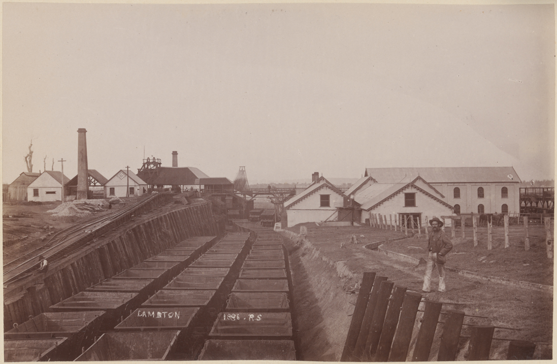 Coal wagons (railed) at Lambton Colliery (annotated with RS for Ralph Snowball, commercial photographer) Dated: 1886 Digital ID: 10036_a027000002 Rights: We'd love to hear from you if you use our photos. Many other photos in our collection are available to view and browse on our website using Photo Investigator.